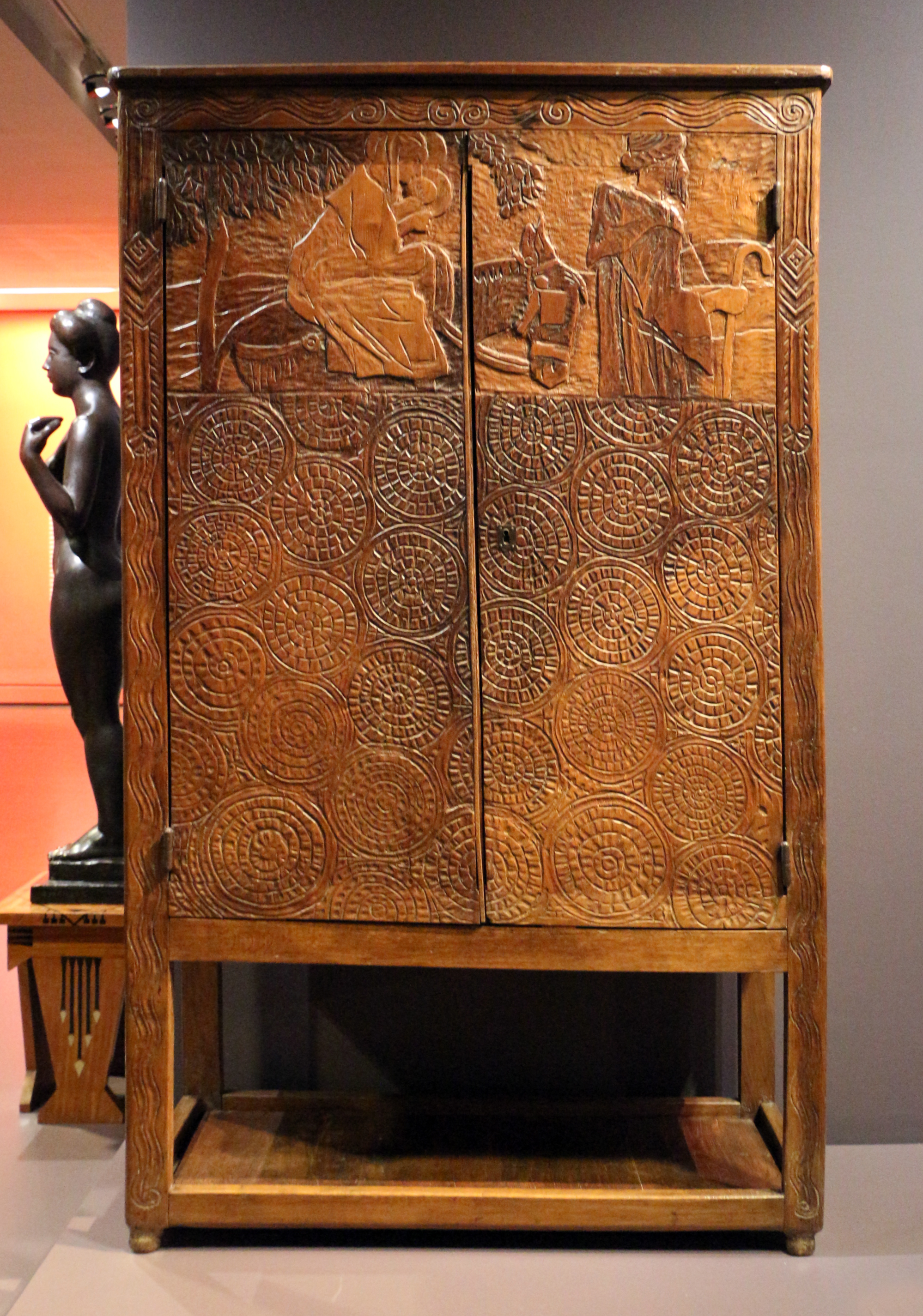 Decorative arts in the Musée d'Orsay